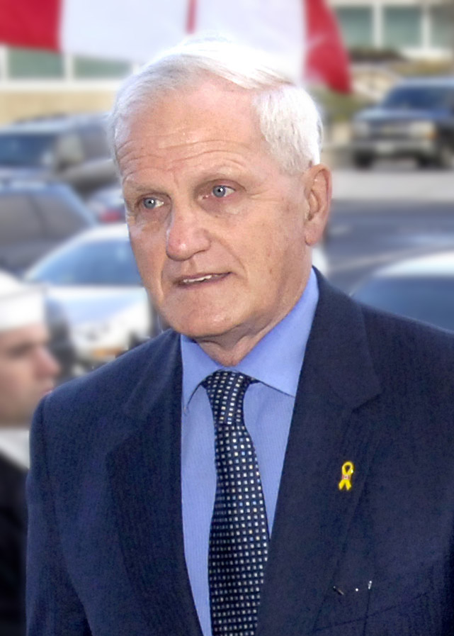 U.S. Defense Secretary Robert Gates (right) escorts Canadian Minister of Defence Gordon O'Connor into the Pentagon for a breakfast meeting.